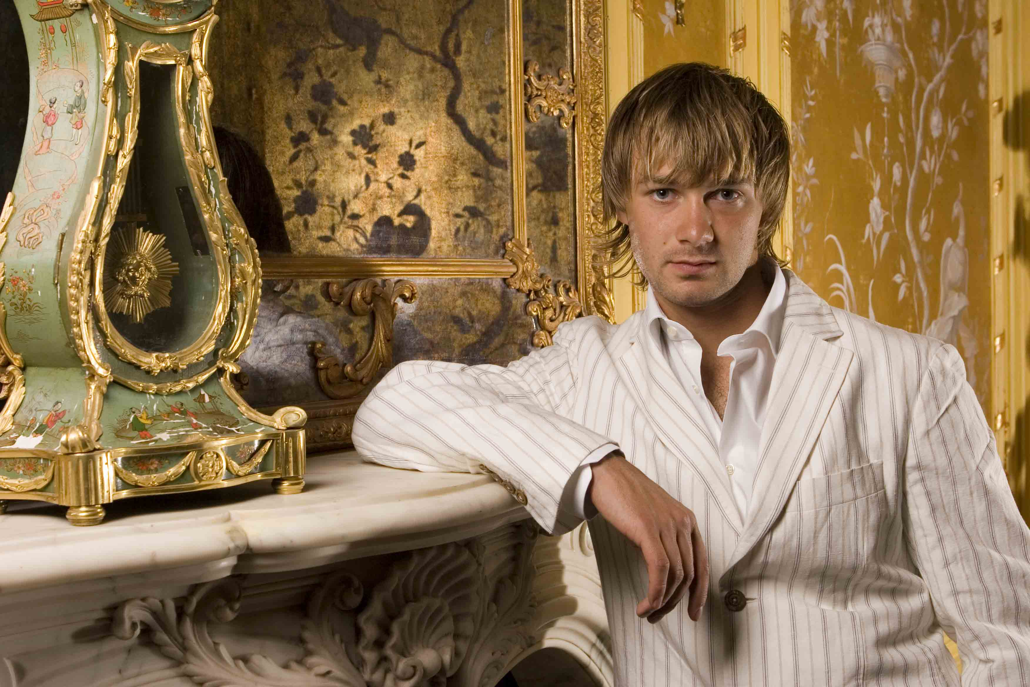 Striker from Lokomotiv Moscow and the Russian national team footballer Dmitry Sychev.